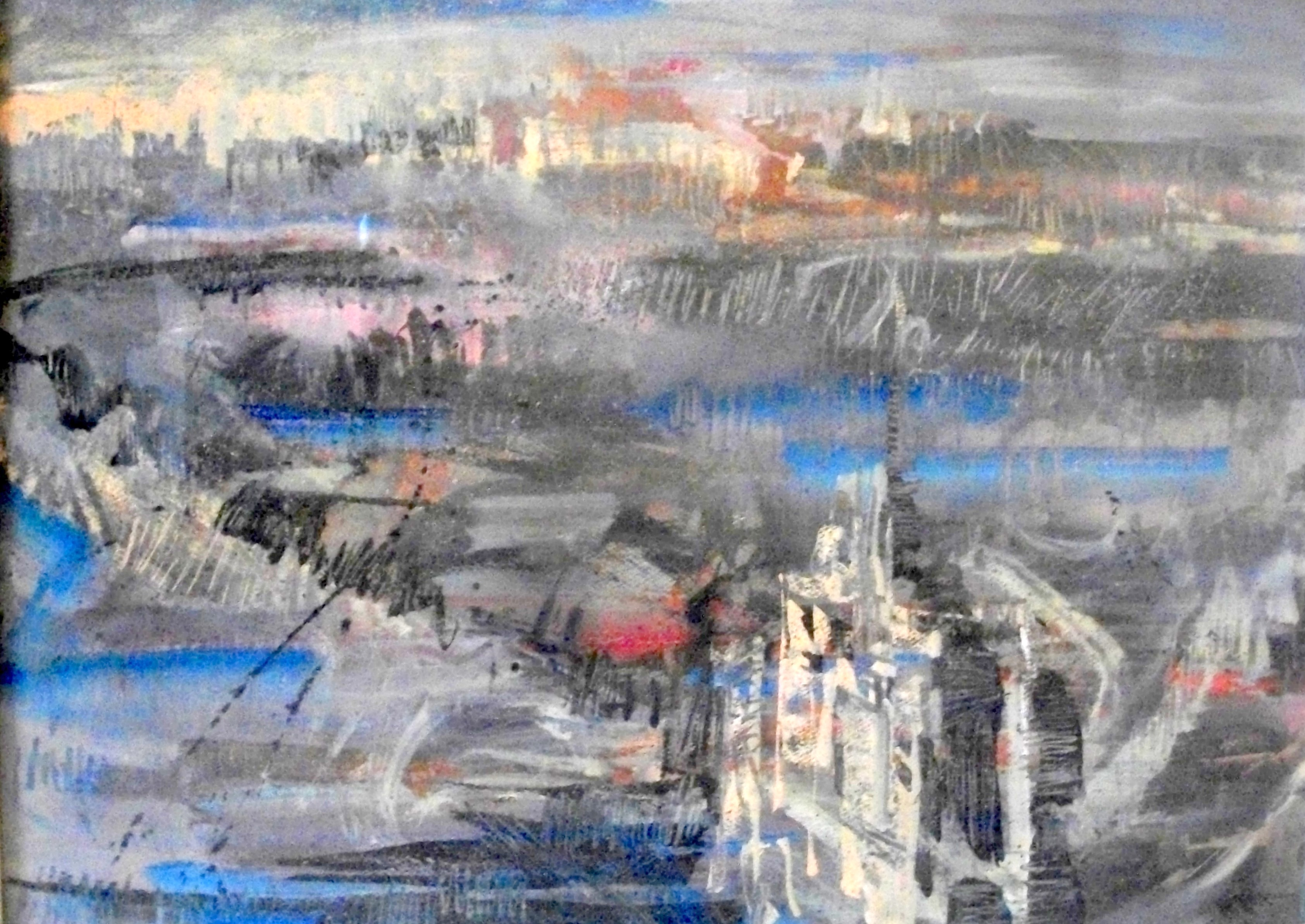 Water color painting of an abstract scene, by Amercian Abstract Expressionist, Jay Meuser